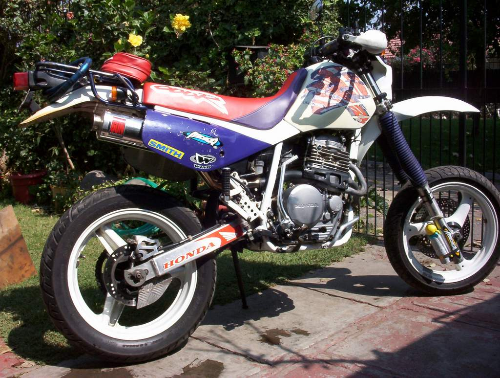 A 1995 Honda XR600 modified for Road only use.